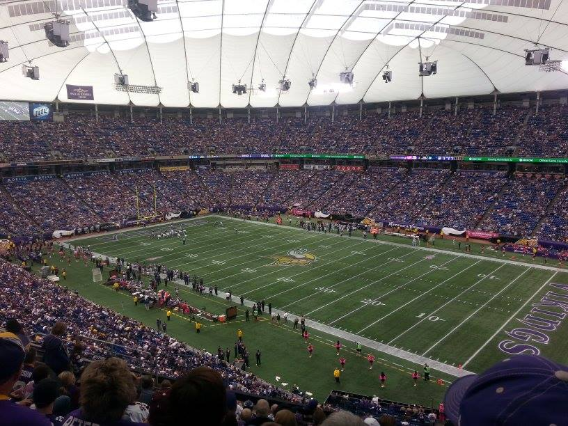 The inside of the Metrodome in Minneapolis during a Minnesota Vikings game in 2013